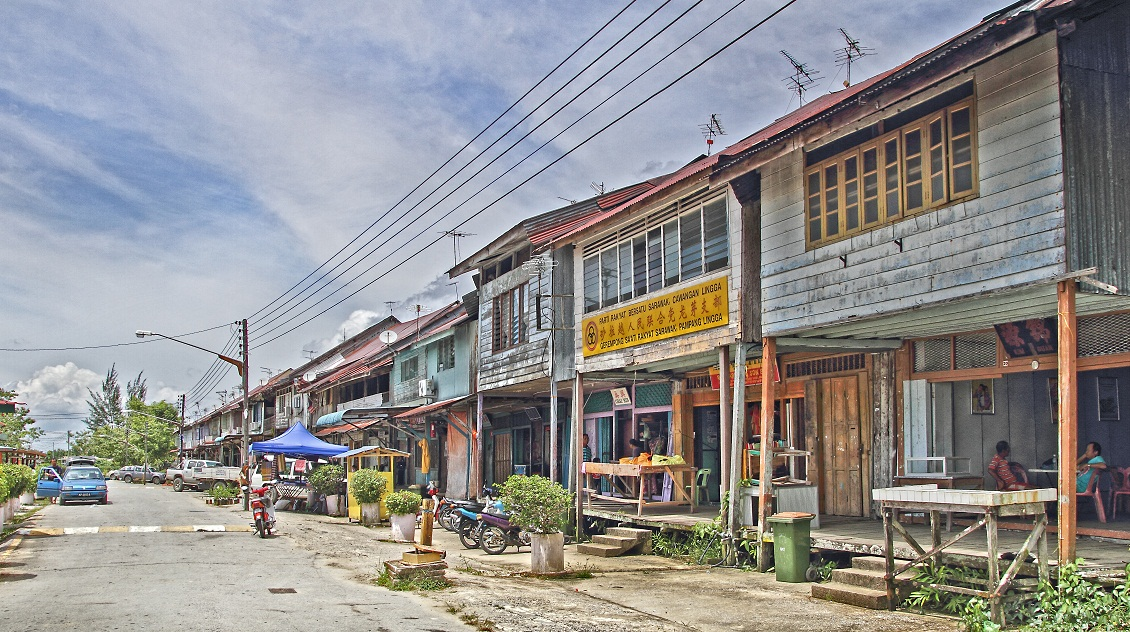 Lingga Shops